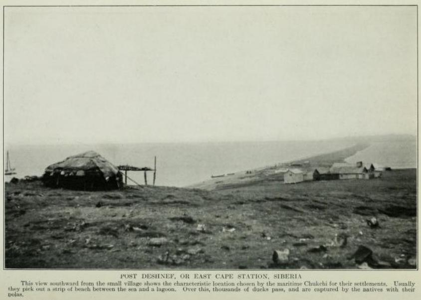 View of Port Dezhnev (Keniskun), Chukotka, Russia showing a yaranga, some American-stule buildings which are probably a trading station, and the lagoon.